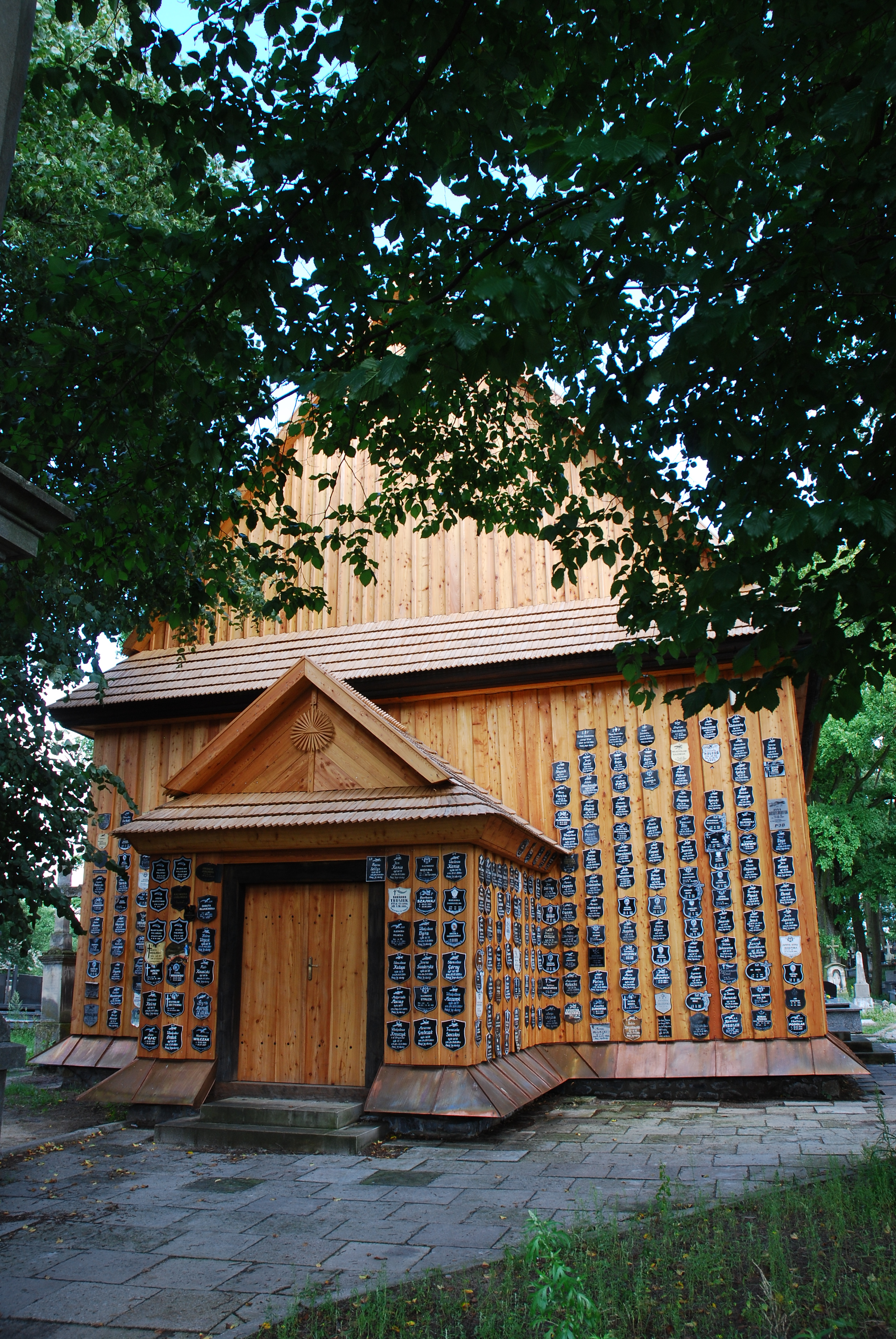 Catholic church of Saint Anna in Zaklików (c. 1580), Subcarpathian Voivodeship, Poland